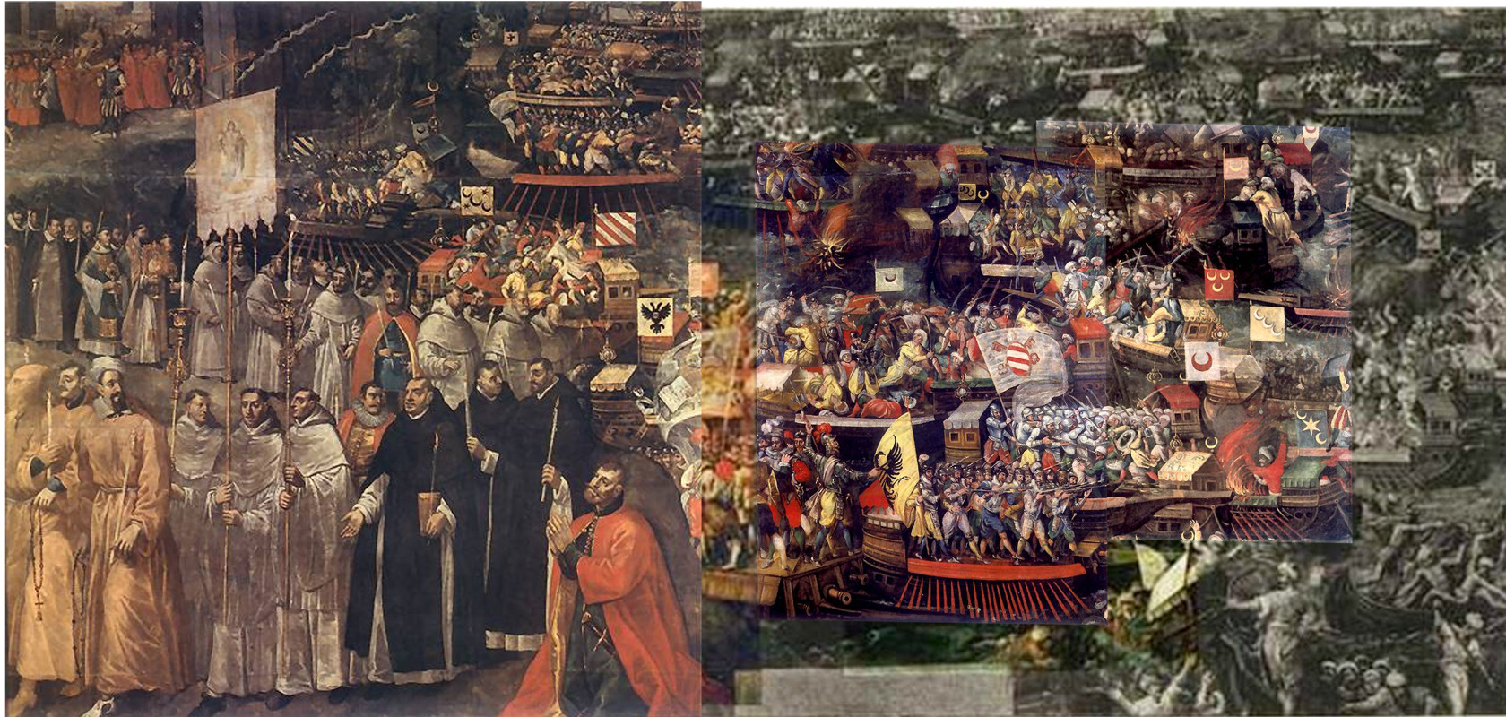 Composite image of the monumental "Battle of Lepanto" by Tommaso Dolabella (Wawel Castle, Cracow). For some reason, there does not appear to be any image of the full painting available on the internet. So I combined the three partial images we had using this low-resolution composite as a backdrop. It's not perfect but at least it gives an idea of how the individual pieces fit together.